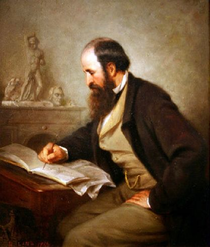 Portrait of United States sculptor Henry Kirke Brown